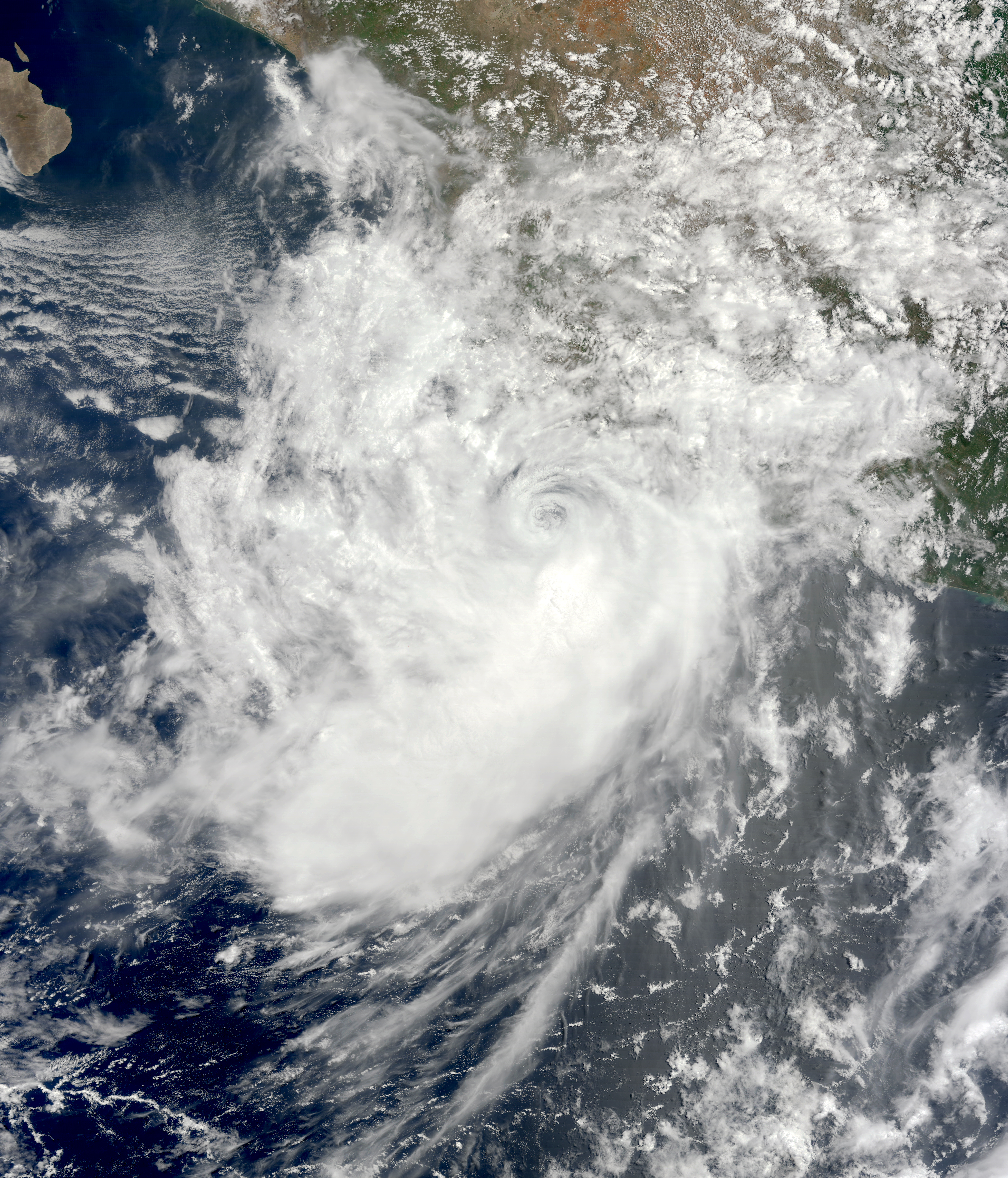 Hurricane Andres on June 23, 2009